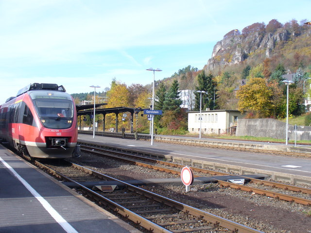 Railway station Gerolstein, Germany